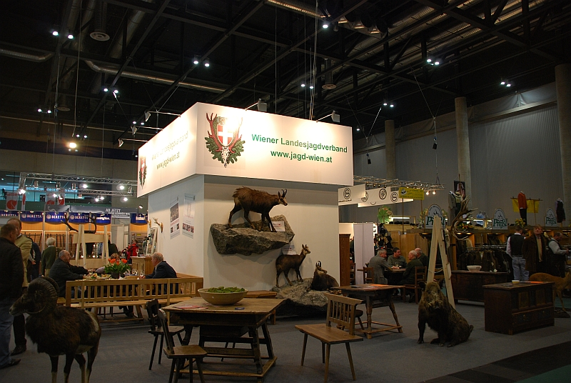 Informationsstand des Wiener Landesjagdverbandes bei der JASPOWA 2009, Wiener Messe